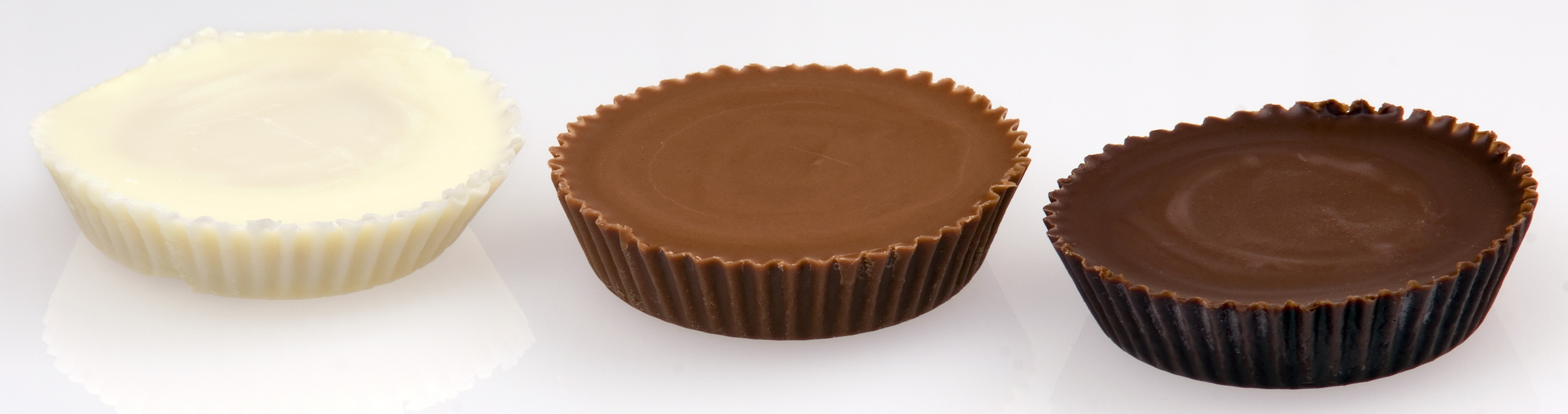 A trio of Reese's Peanut Butter Cups: white chocolate, milk chocolate and dark chocolate.